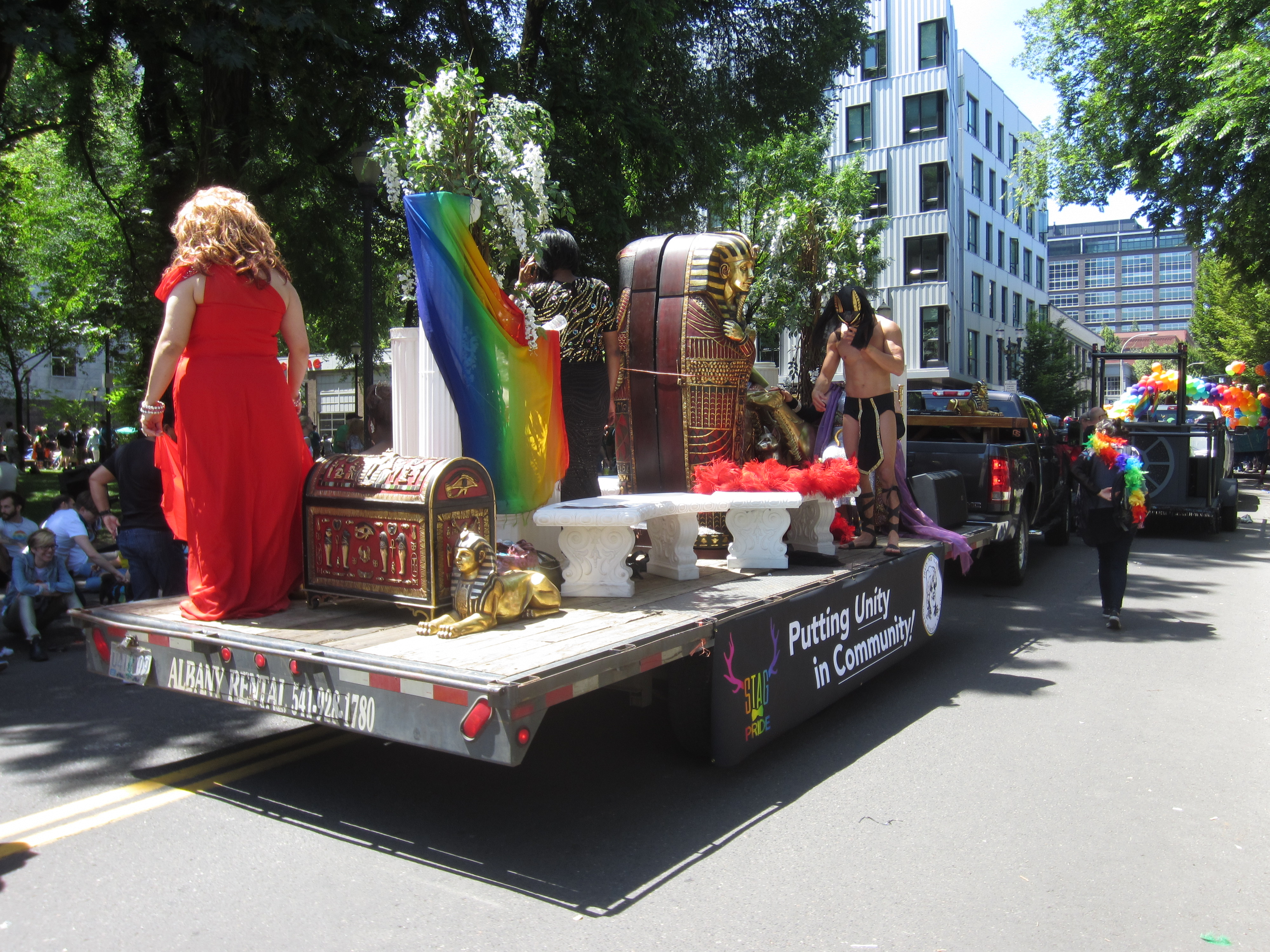 Portland Pride 2016 (Oregon)